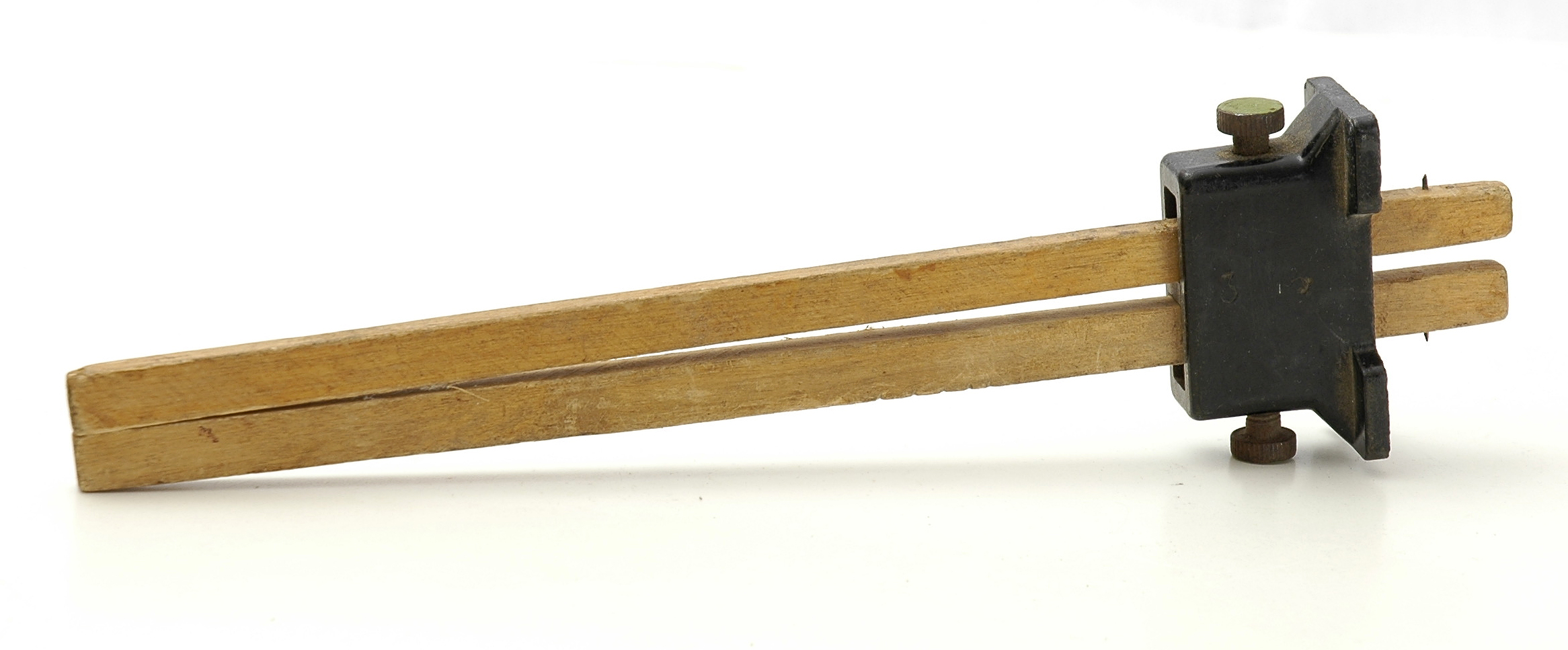 Marking gauge